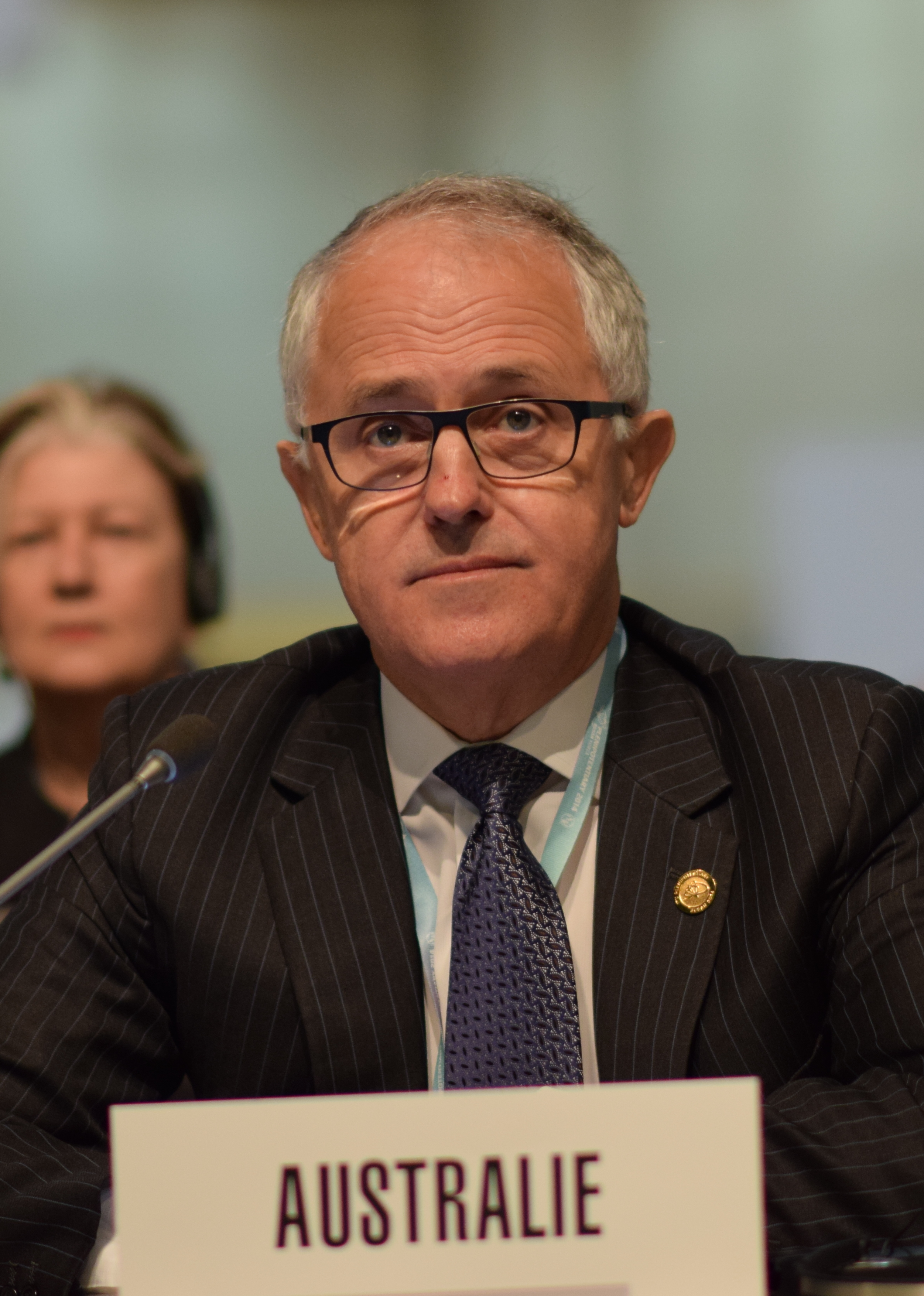 Australian minister